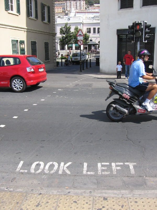 Gibraltar: "Look Left" - British territory with right-hand-traffic